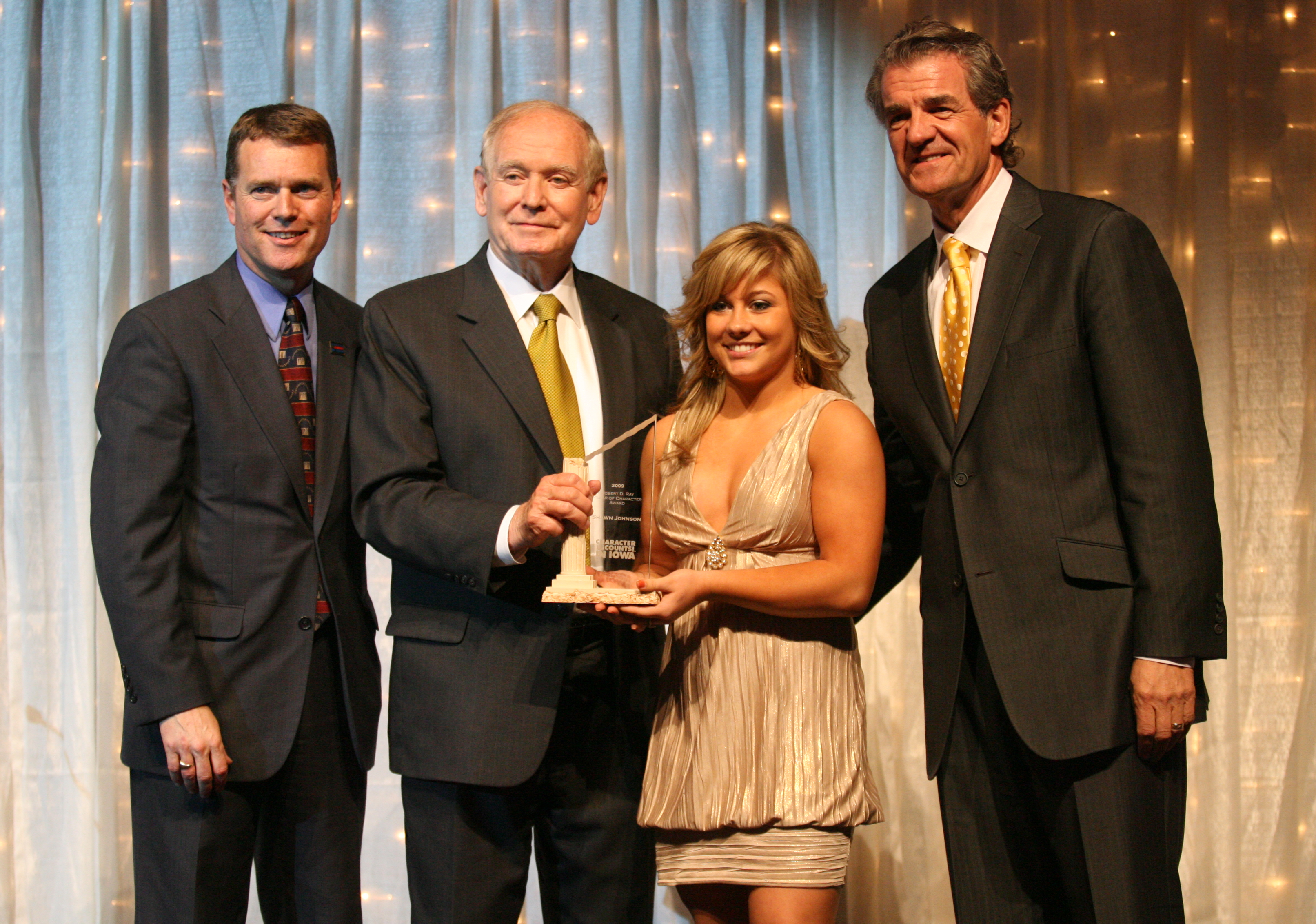 m0418shawn taken 04/17/09 Des Moines,IA. Photo by Justin Hayworth -- m0418shawn1jh -- Scott Raecker, executive director of CHARACTER COUNTS! In Iowa, former Gov. Robert D. Ray Shawn Johnson and Ric Jurgens CEO of Hy-Vee, all pose with the Robert D. Ray Pillar of Character Award after presenting it to Johnson Friday night at the Hy-Vee Conference Center in West Des Moines. REGISTER PHOTO BY JUSTIN HAYWORTH